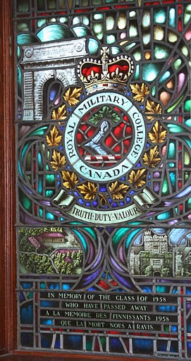 Memorial Stained Glass window, Class of 1938, Royal Military College of Canada